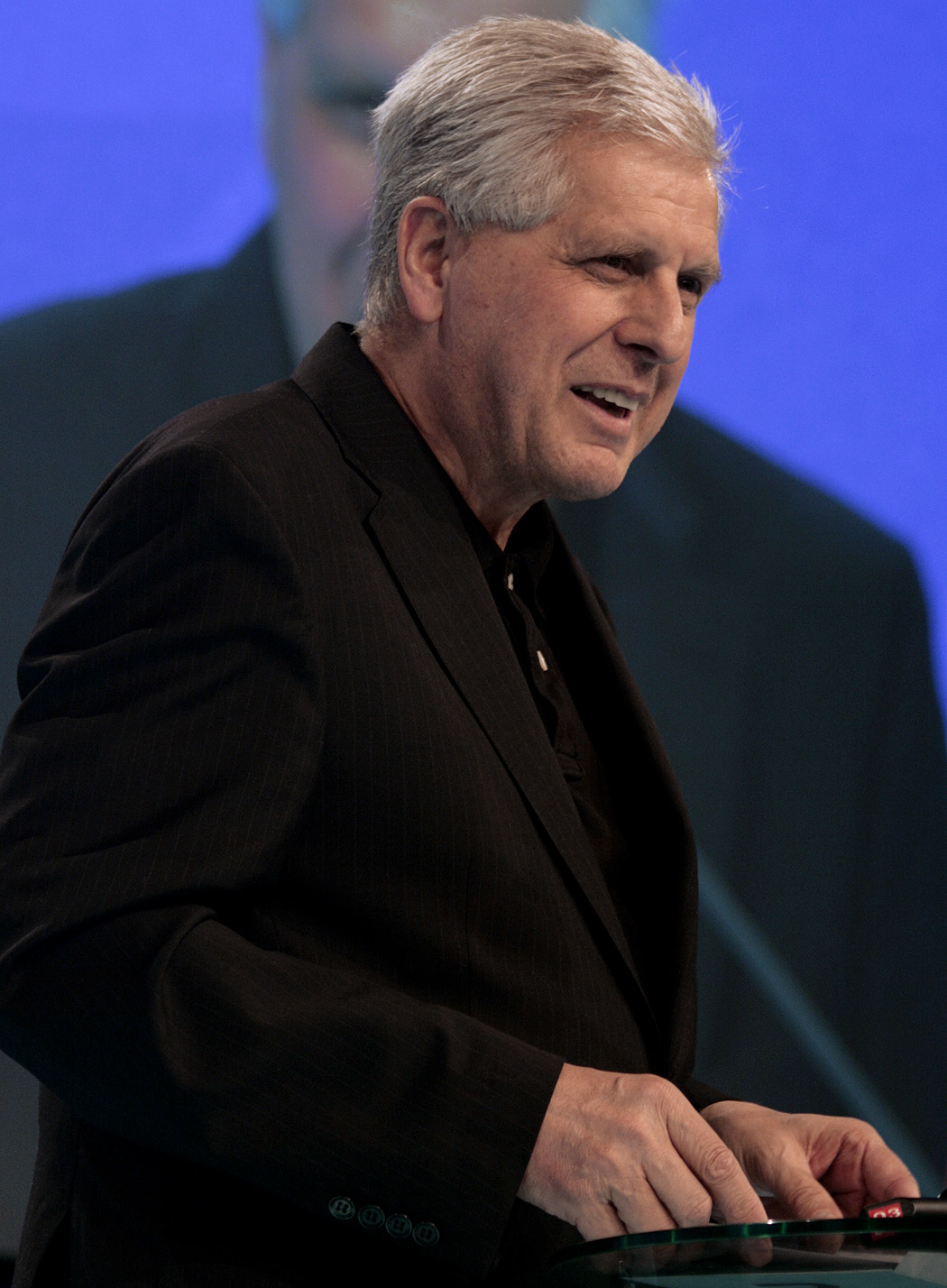 Franz Küberl at the MiA-Awards 2009 (Studio 44, Vienna, Austria).